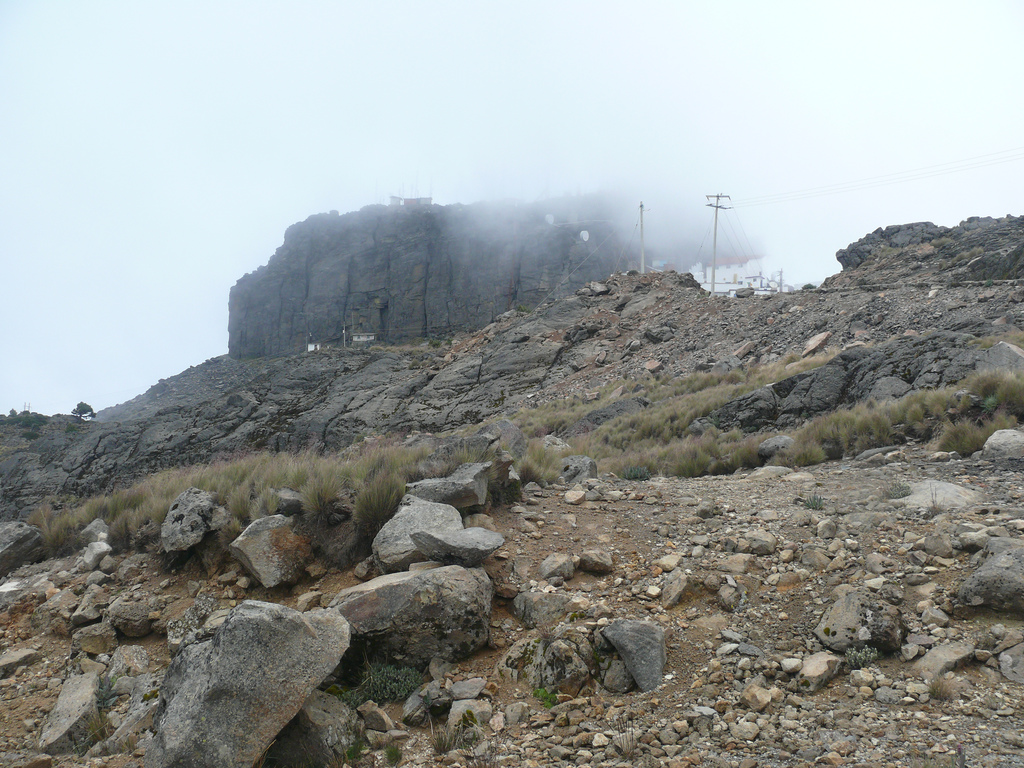 Lado oeste del Cofre de Perote